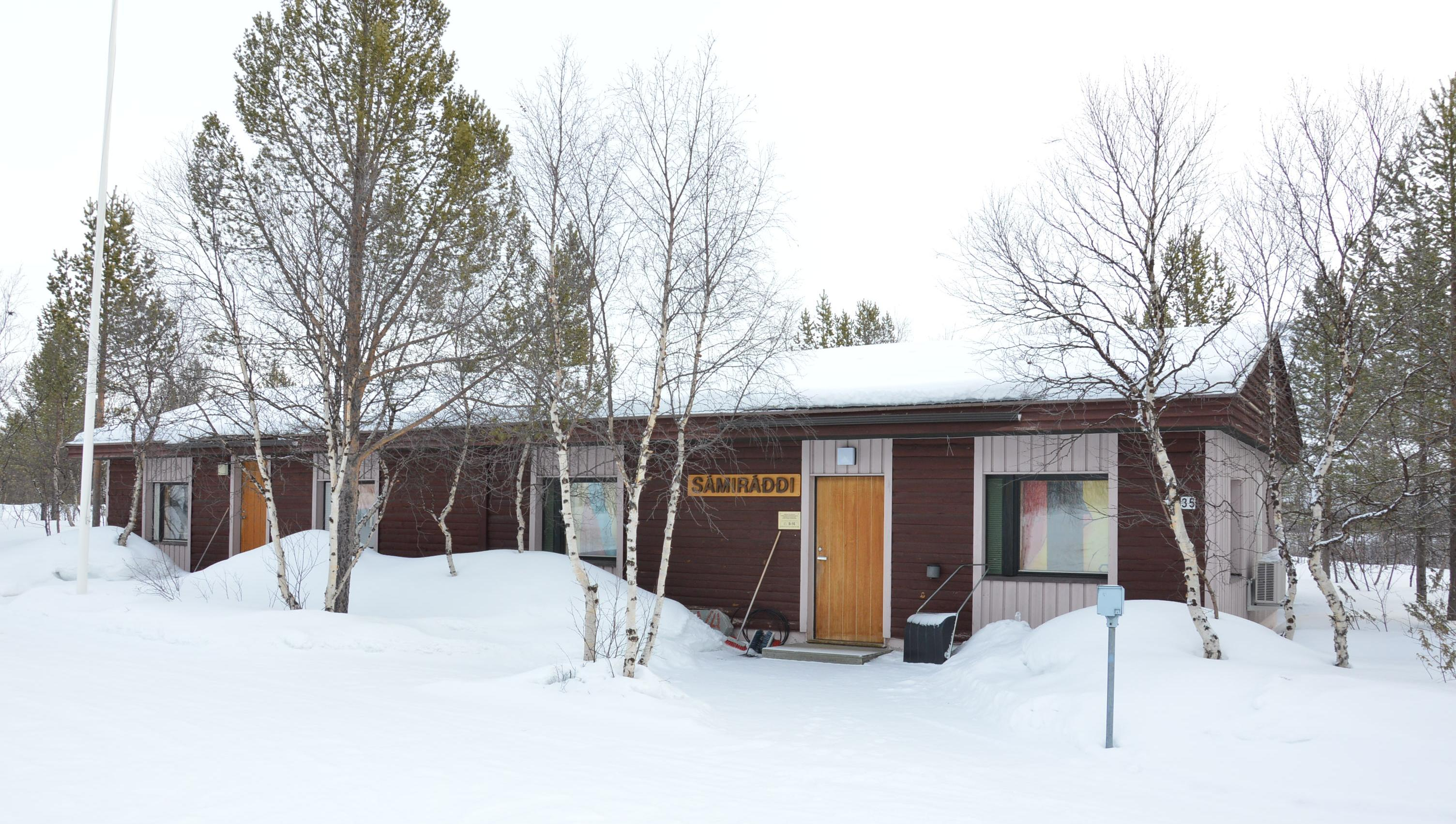 Sami Council (Sámiráđđi) headquarters in Utsjoki, Lapland, Finland.